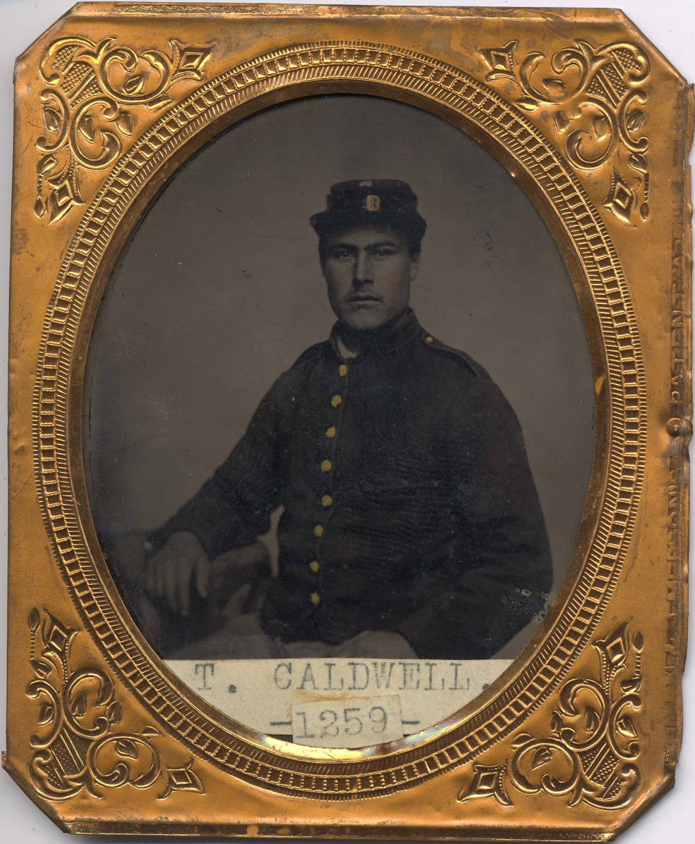 Tzar Caldwell, Co E, 13th New York Volunteer Infantry, New York State Military Museum